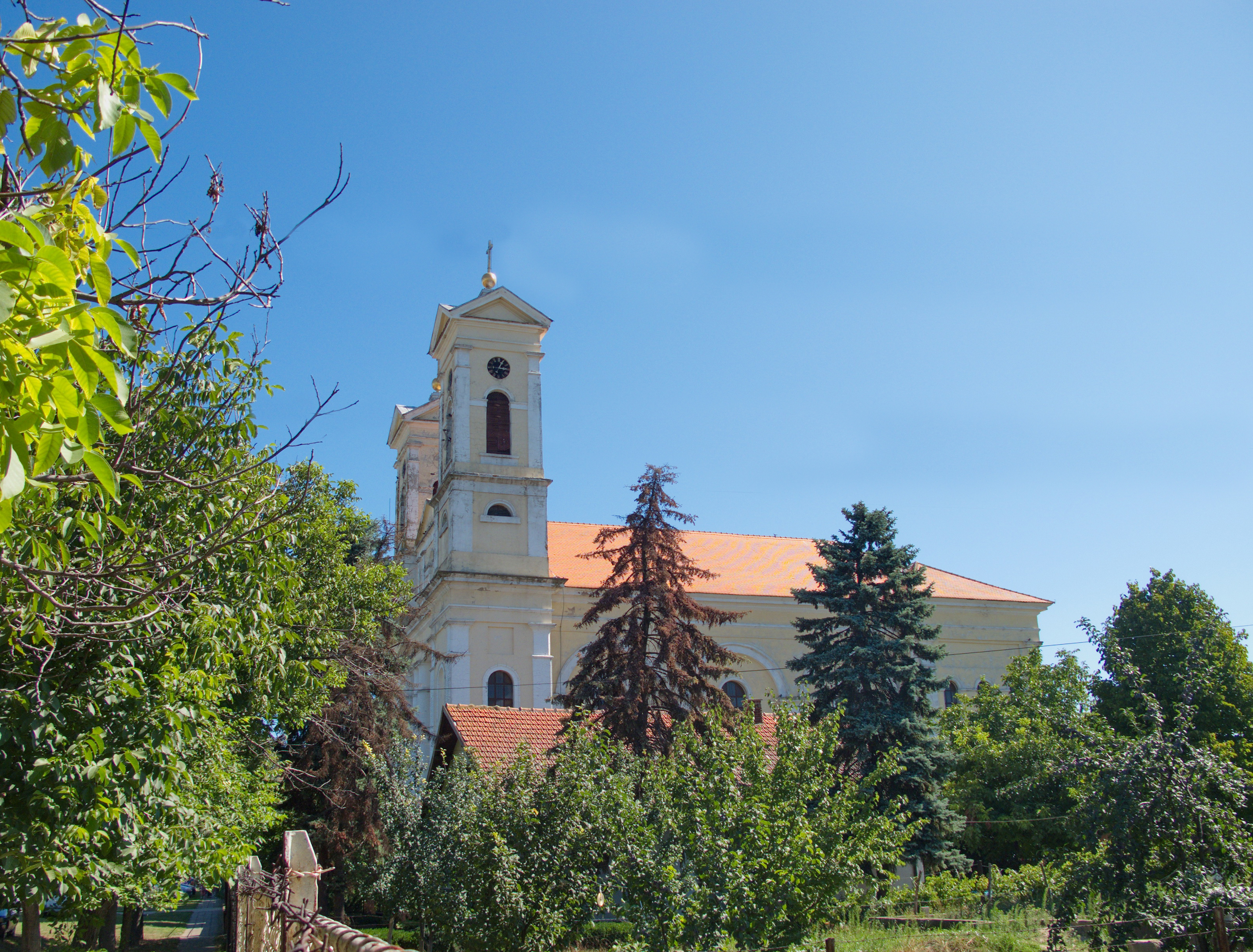 Katolička crkva svete Magdalene u Beodri - Novo Miloševo, sa dva tornja.